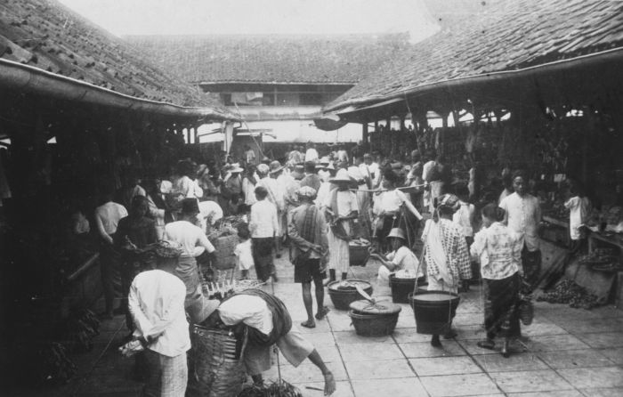 Market